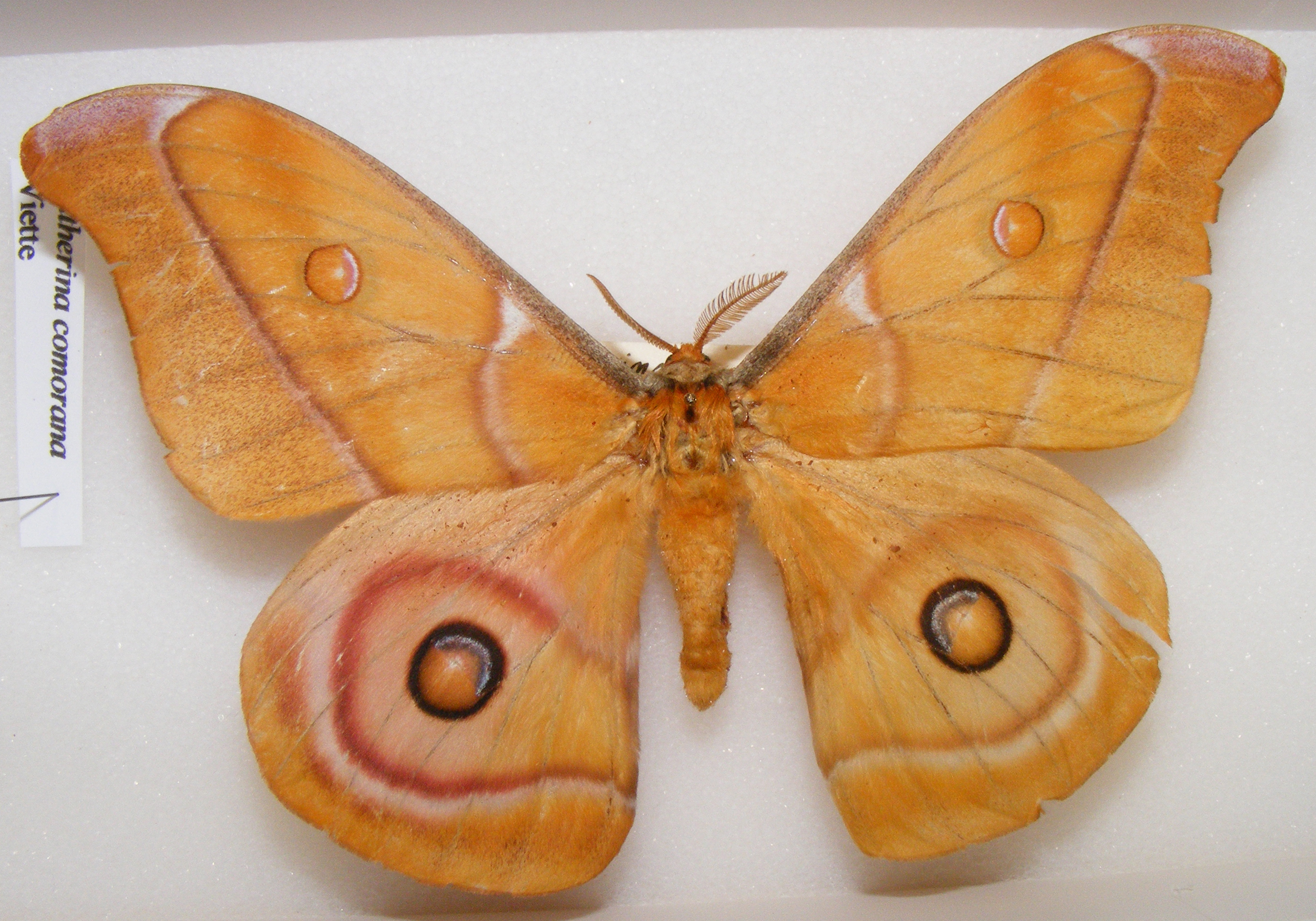 Antherina comorana adult from the Texas A&M University Insect Collection